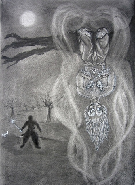 Picture of Vetal hanging by a tree and Vikram in the background.